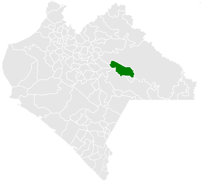 Map of the Municipalty of Altamirano in the State of Chiapas, México.